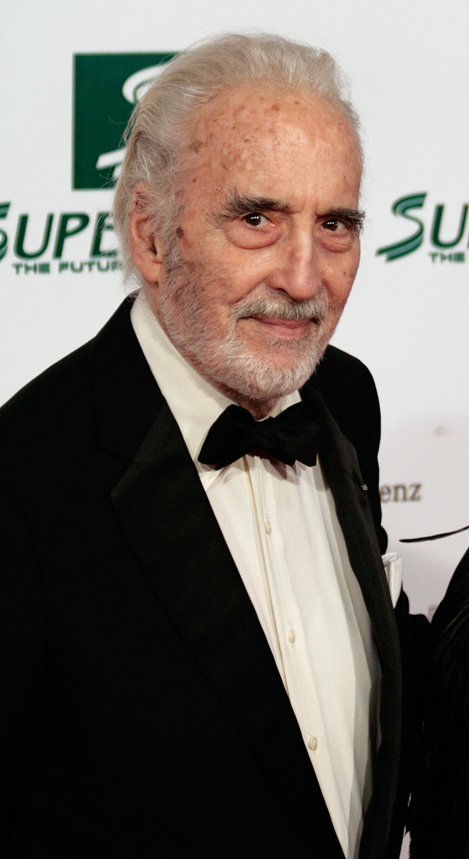 Christopher Lee at the Women's World Award 2009 (Wiener Stadthalle, Vienna, Austria).